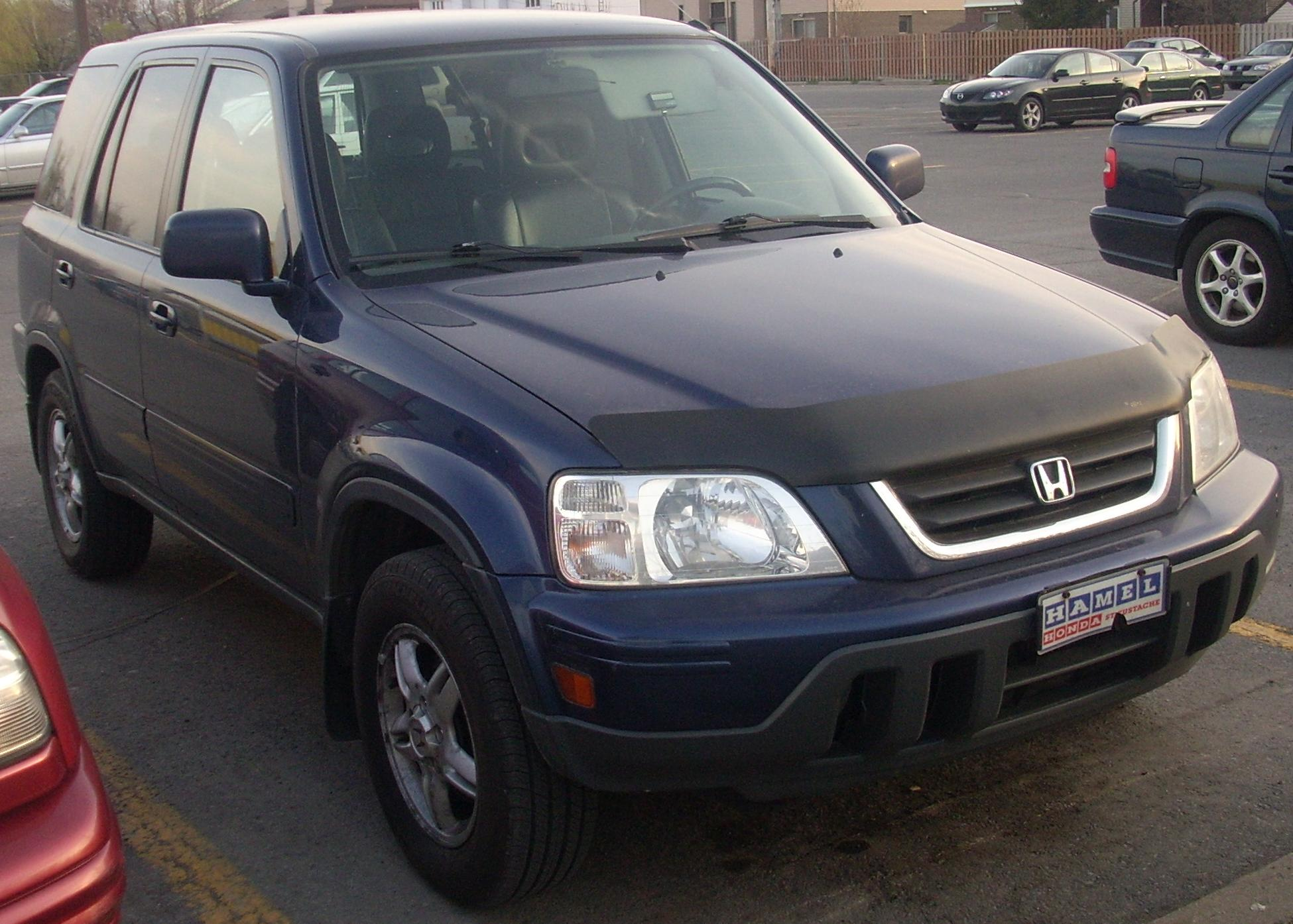 2000 Honda CR-V photographed in Montreal, Quebec, Canada.